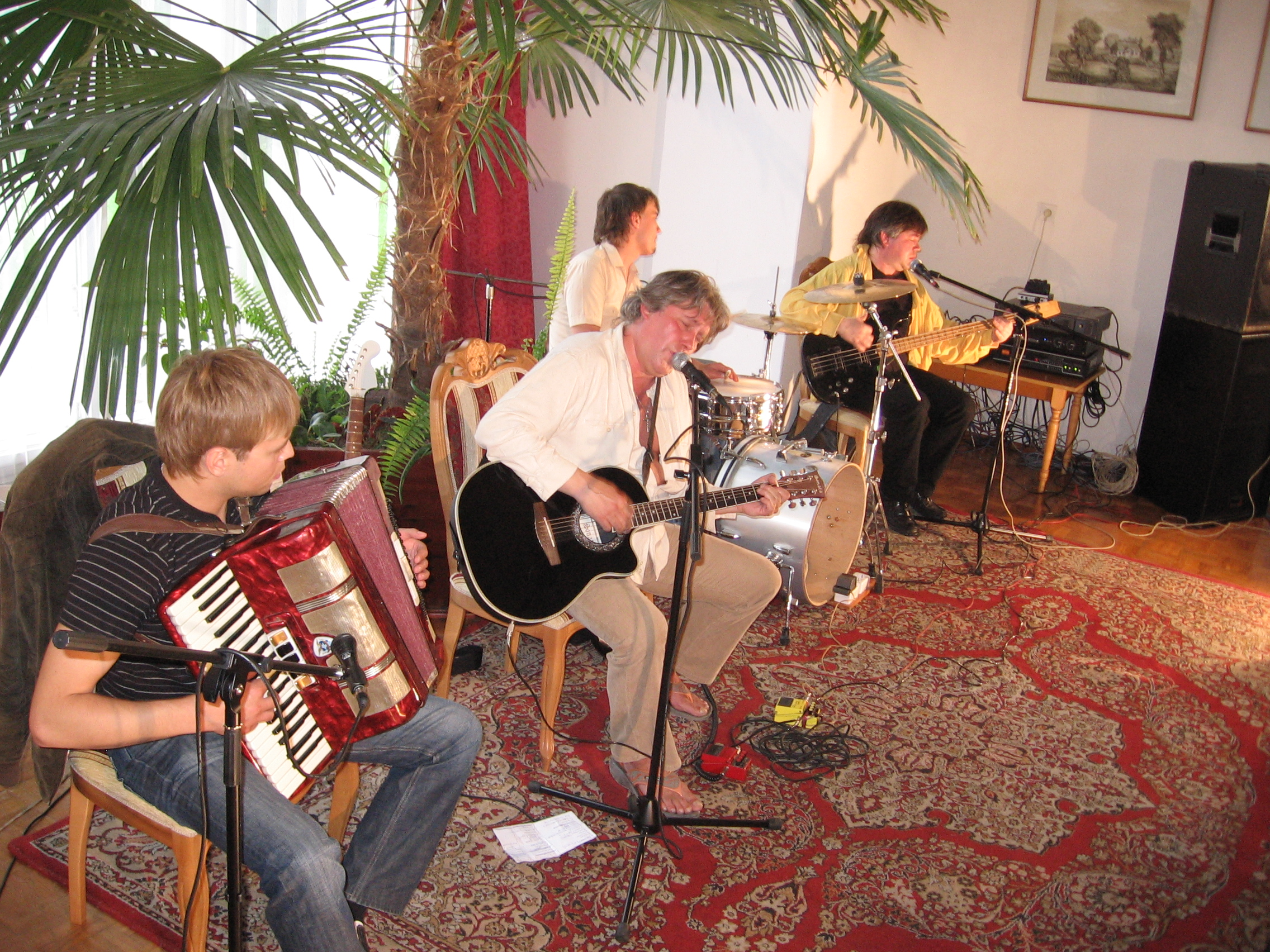 Concert of band "SADЪ" in museum-manor "Pruzhanski palacyk", 2009 Беларуская (тарашкевіца): Канцэрт гурта «САДЪ» у музэі-сядзібе «Пружанскі палацык», 2009